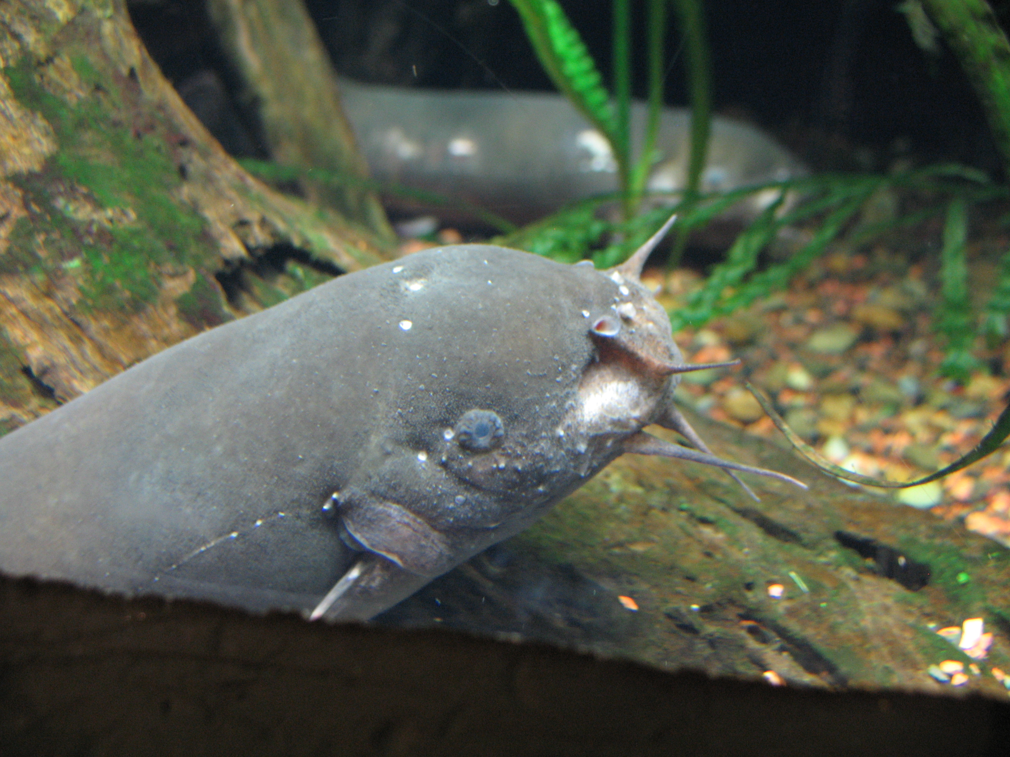 Electric catfish Malapterurus electricus at Georgia Aquarium. "The electric catfish is found in the Nile River basin and Lake Chad in western and central tropical Africa. It inhabits freshwater lakes and rivers, among rocks and roots in murky waters. This species can grow to four feet in length and weigh about 44 lbs. It gets its name from its ability to produce an electric discharge for protection and hunting. The discharge is proportional to the size of the fish. It is produced in specialized plates around the body that can release 300 to 400 volts. However, this electric discharge is not dangerous to people because it is of very low amperage."